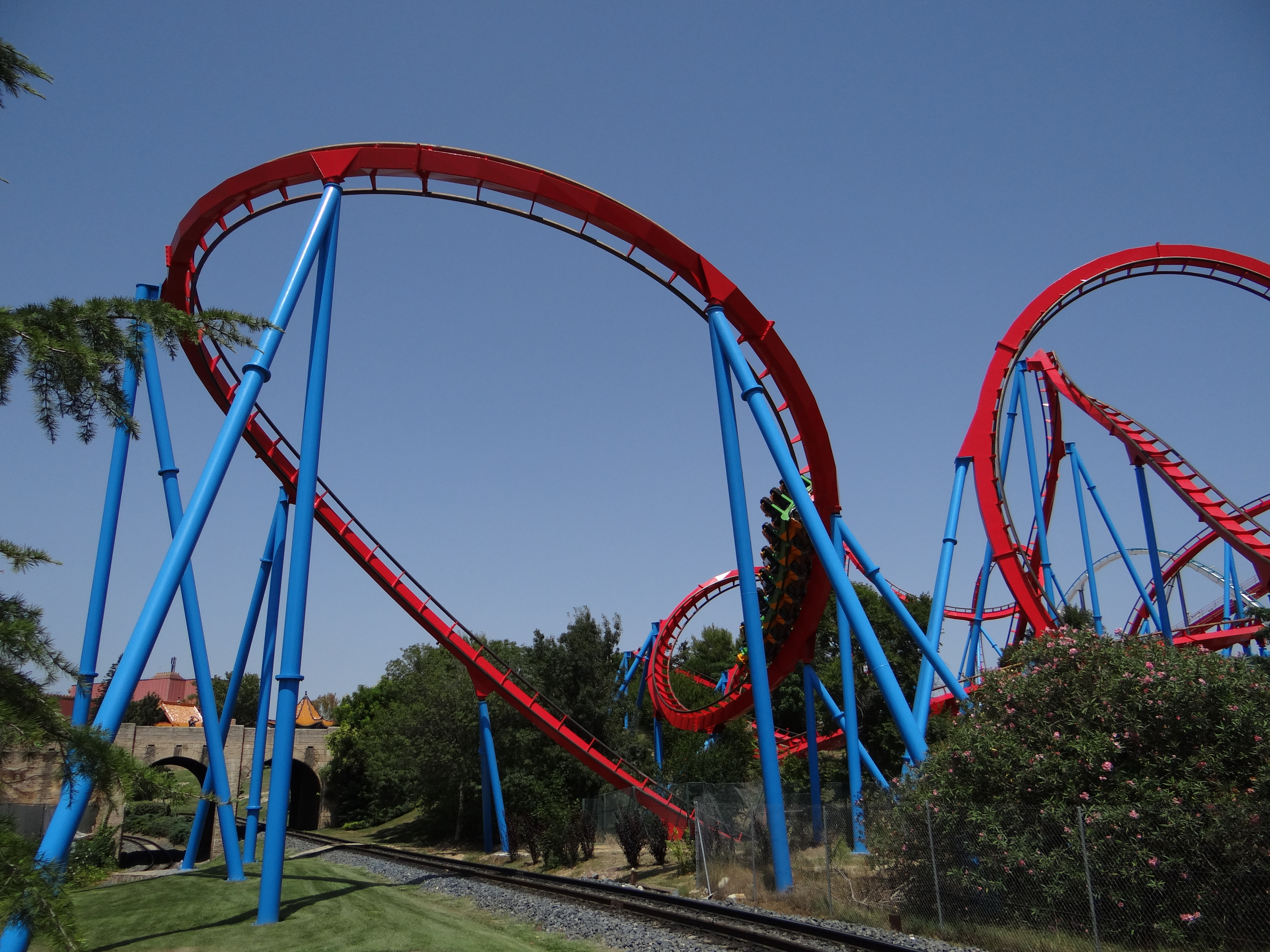 This is the beggining of the Dragon Khan's lower section.